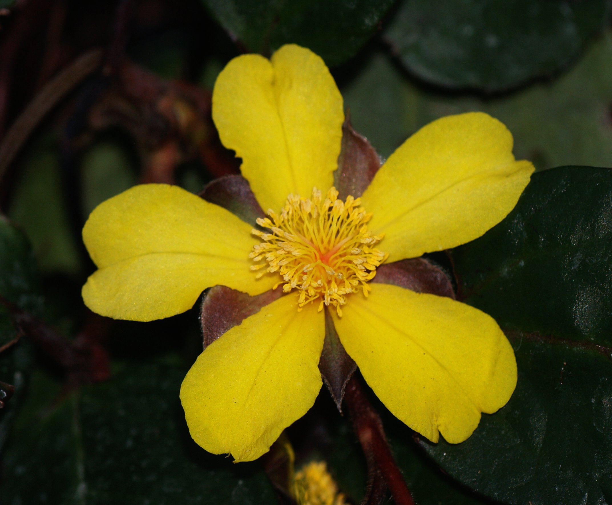 Hibbertia dentata flower, from the Botanical Garden (Flora) of Cologne, Germany.